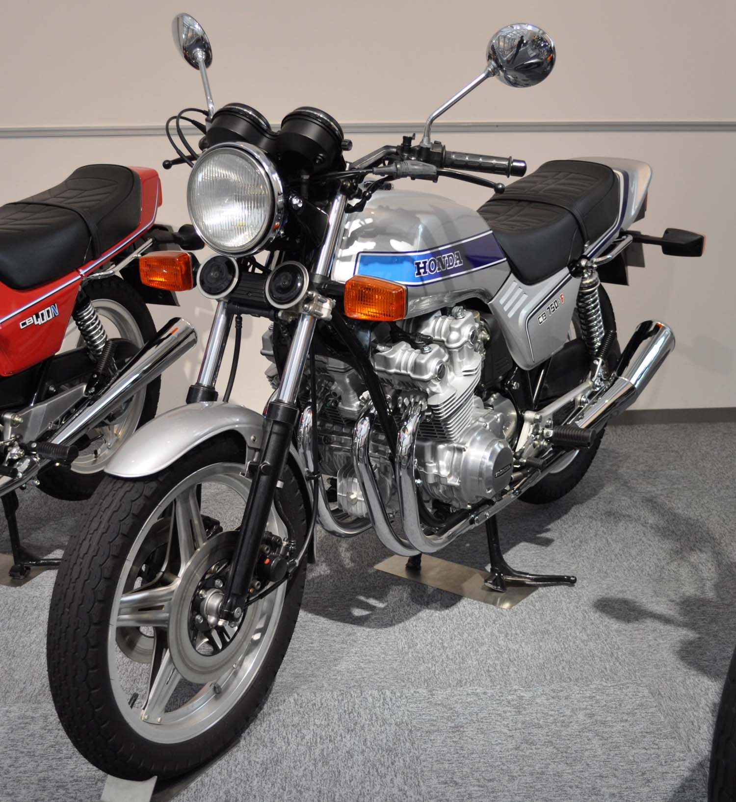 Honda CB750F (1979)